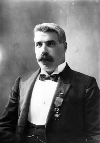 Alex McDonald (1859–1909) in about 1899, as a Knight of the Order of St. Gregory